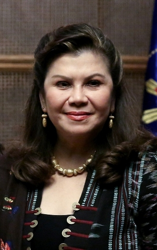 President Rodrigo Duterte poses for a photo with former House Speaker Jose de Venecia Jr. and Pangasinan 4th District Representative Gina de Venecia during a meeting at the Study Room in Malacañan Palace on March 7, 2017. RICHARD MADELO / Presidential Photo